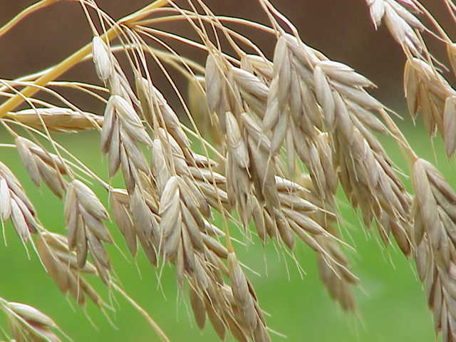 Species: Bromus secalinus Family: Poaceae Image No. 2